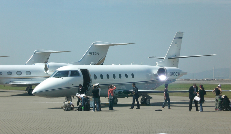 Gulfstream G200 (N833BA) at Hong Kong Airport. In the background the tail of a Gulfstream IV (N250VC).